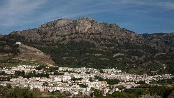 Cazorla, Andalucía, Jaén, Spain; ; ref PM_091599_E_Cazorla; ; Photographer: Paul M.R. Maeyaert; © Paul M.R. Maeyaert; ; Cultural heritage; Europeana; Europe/Spain/Cazorla